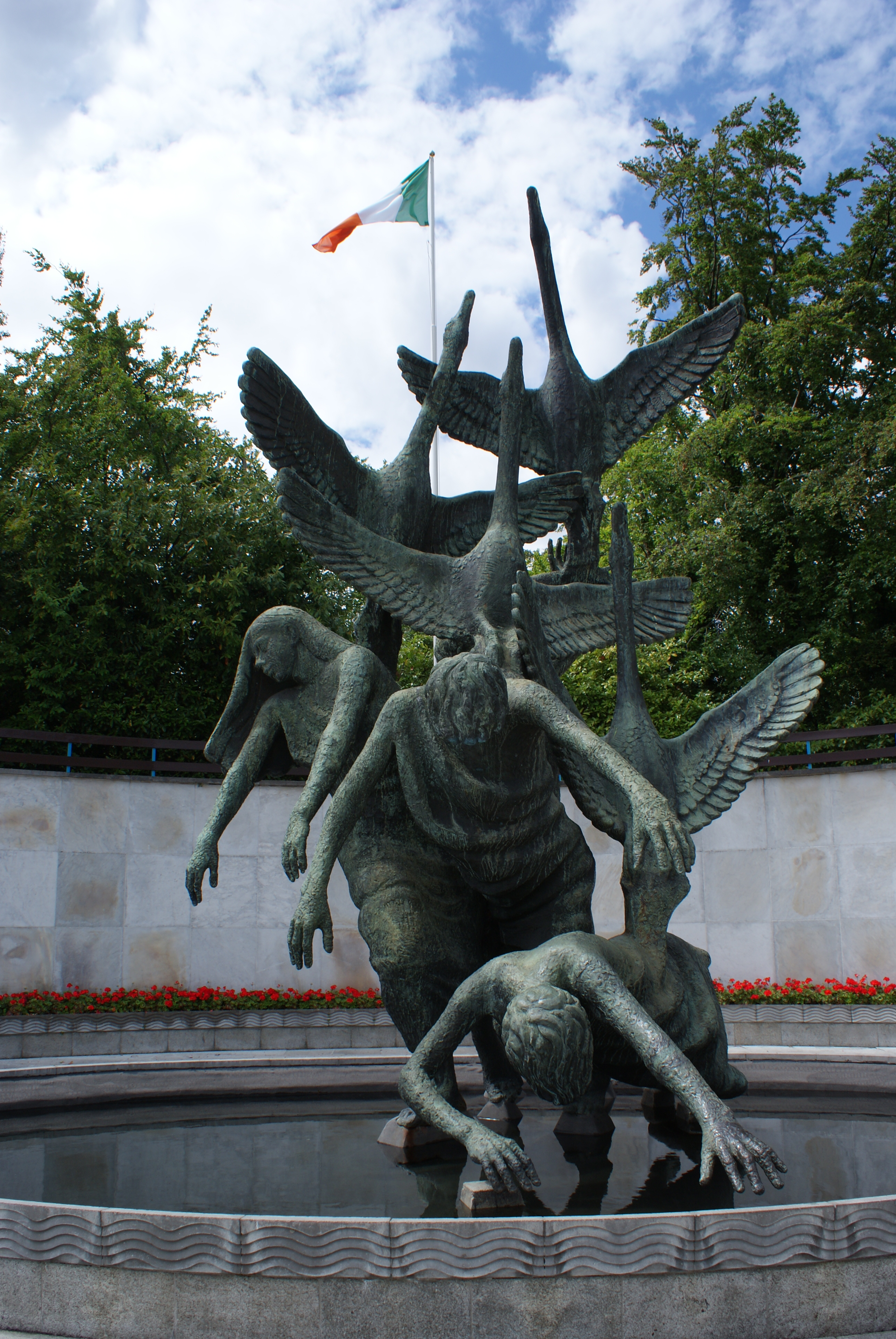 Sculpture of the Children of Lir, designed by Oisín Kelly and situated in the Garden of Remembrance (Dublin)